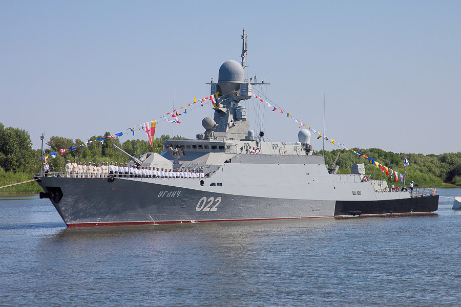 Uglich in Astrakhan.